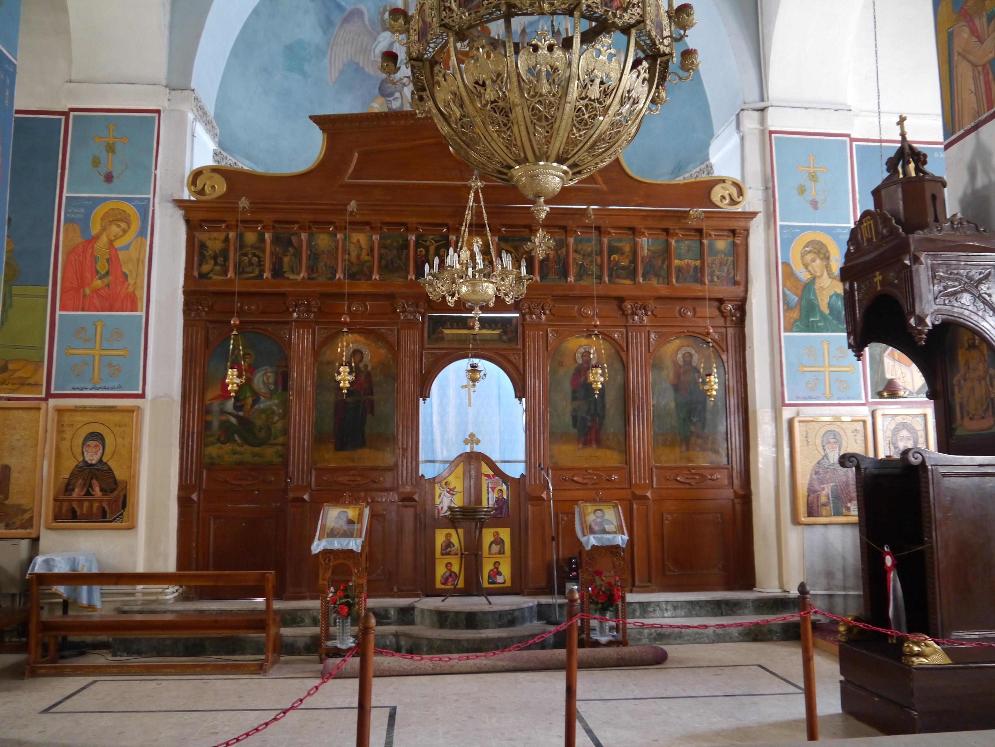 Altar of St. George, Madaba, Western Jordan